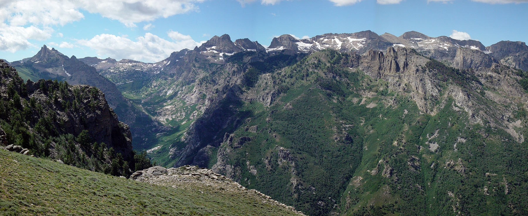 Highest peaks of Ruby Mtns, photo from top of Snell mountain to the south